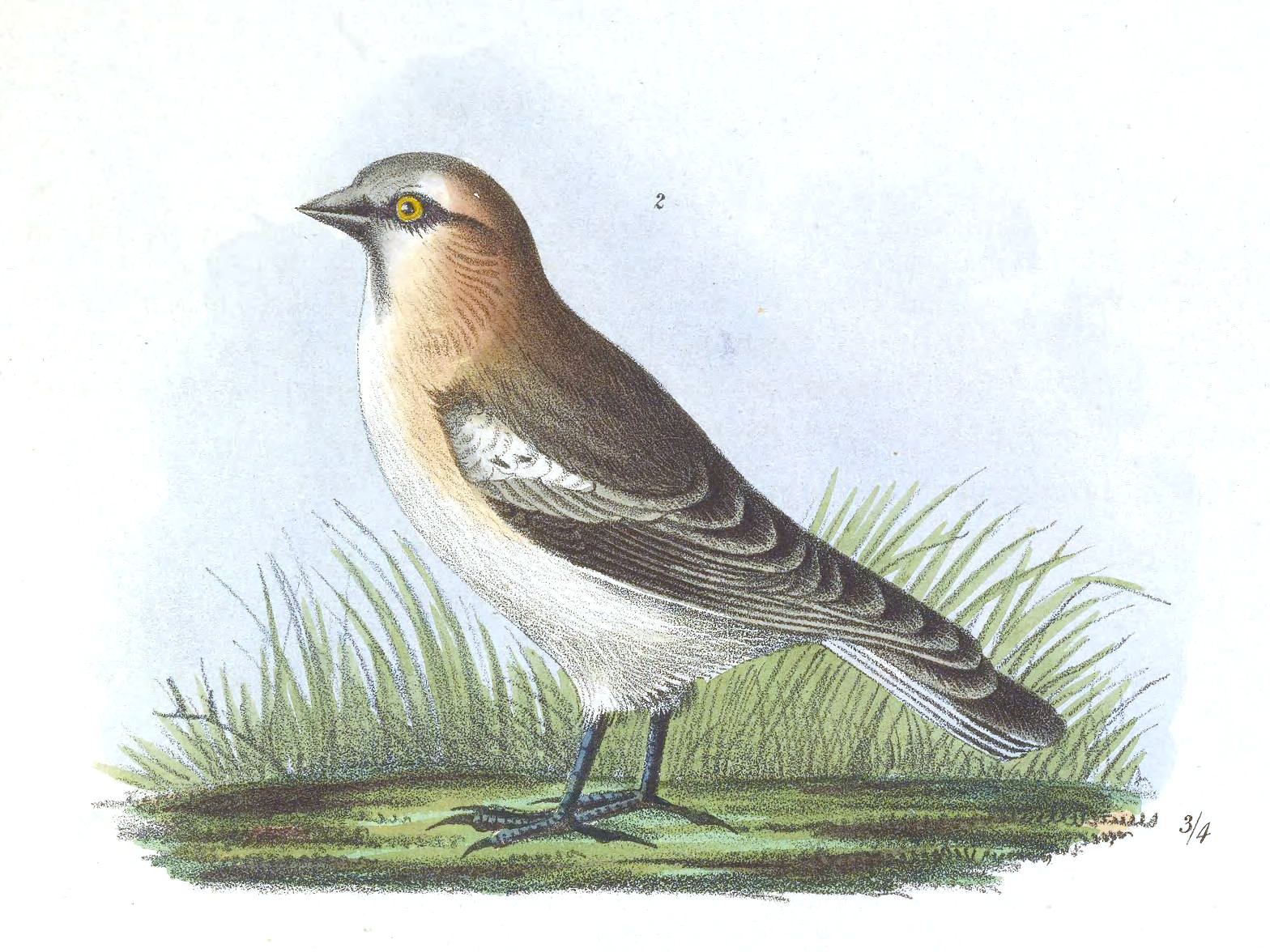 Rufous-necked Snowfinch (Pyrgilauda ruficollis)